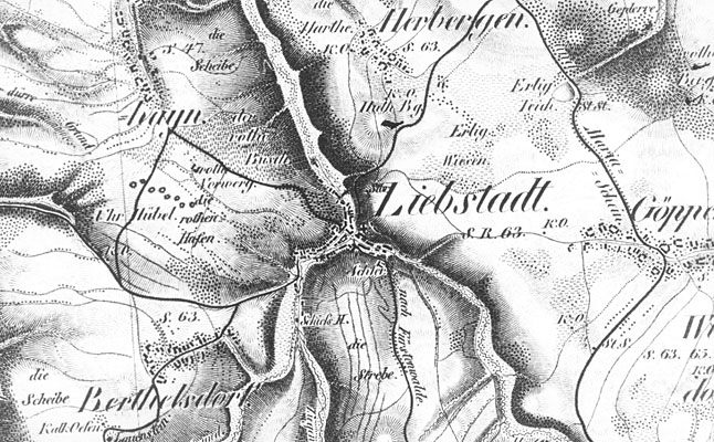 old map of Liebstadt, Berthelsdorf, Herbergen and Seitenhain in Saxony.